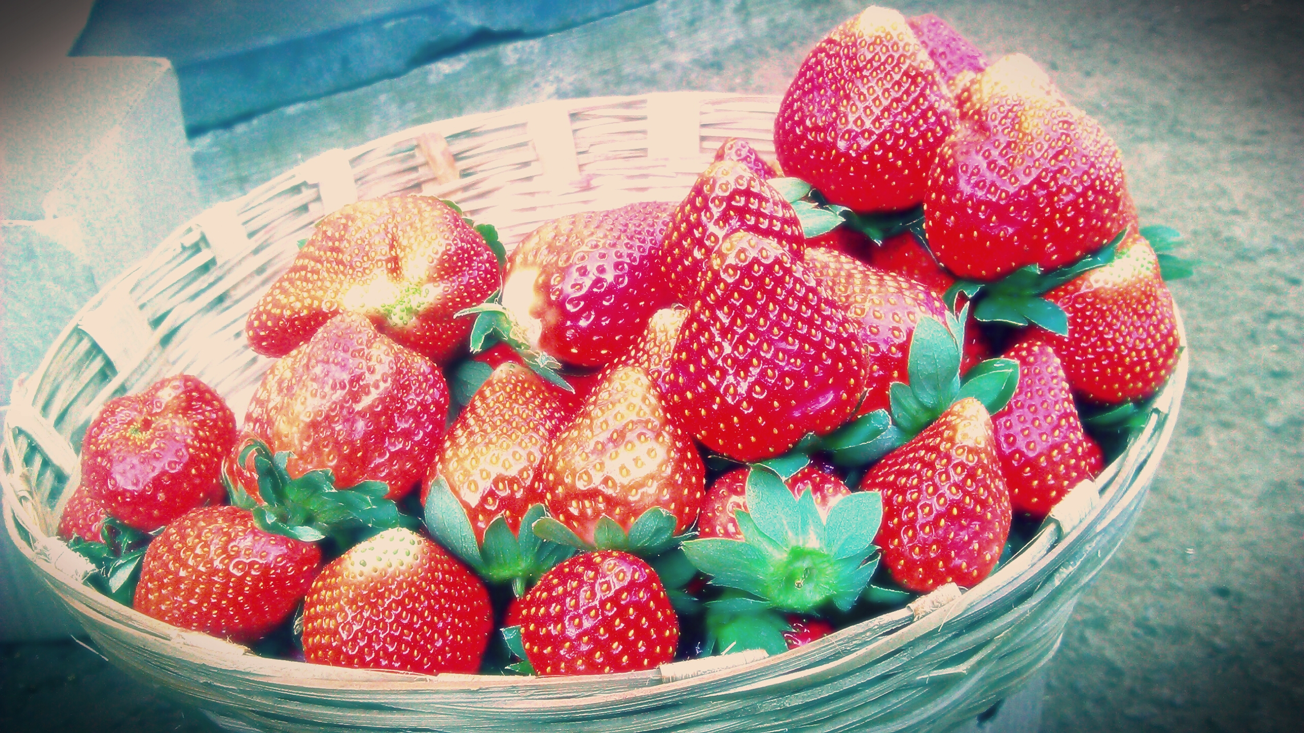 The strawberry is widely appreciated for its characteristic aroma, bright red color, juicy texture, and sweetness. These particular strawberries were on sale in the local market of Mahabaleshwar, a hill station in India. Mahabaleshwar has a number of strawberry farms.